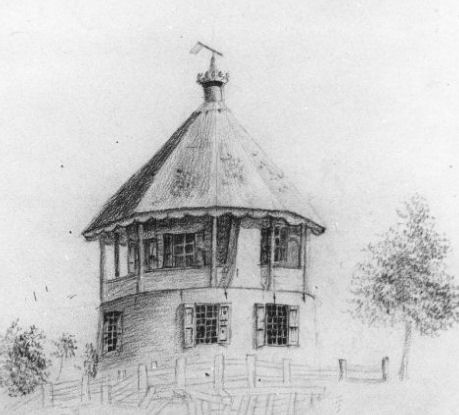 Koerhuis near Deventer